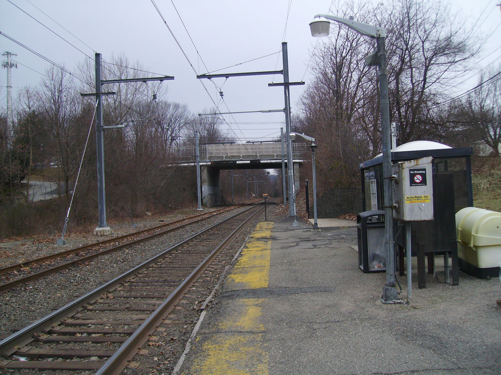 The to-be-closed Great Notch New Jersey Transit station in Great Notch, New Jersey, a portion of Little Falls facing towards Hackettstown.